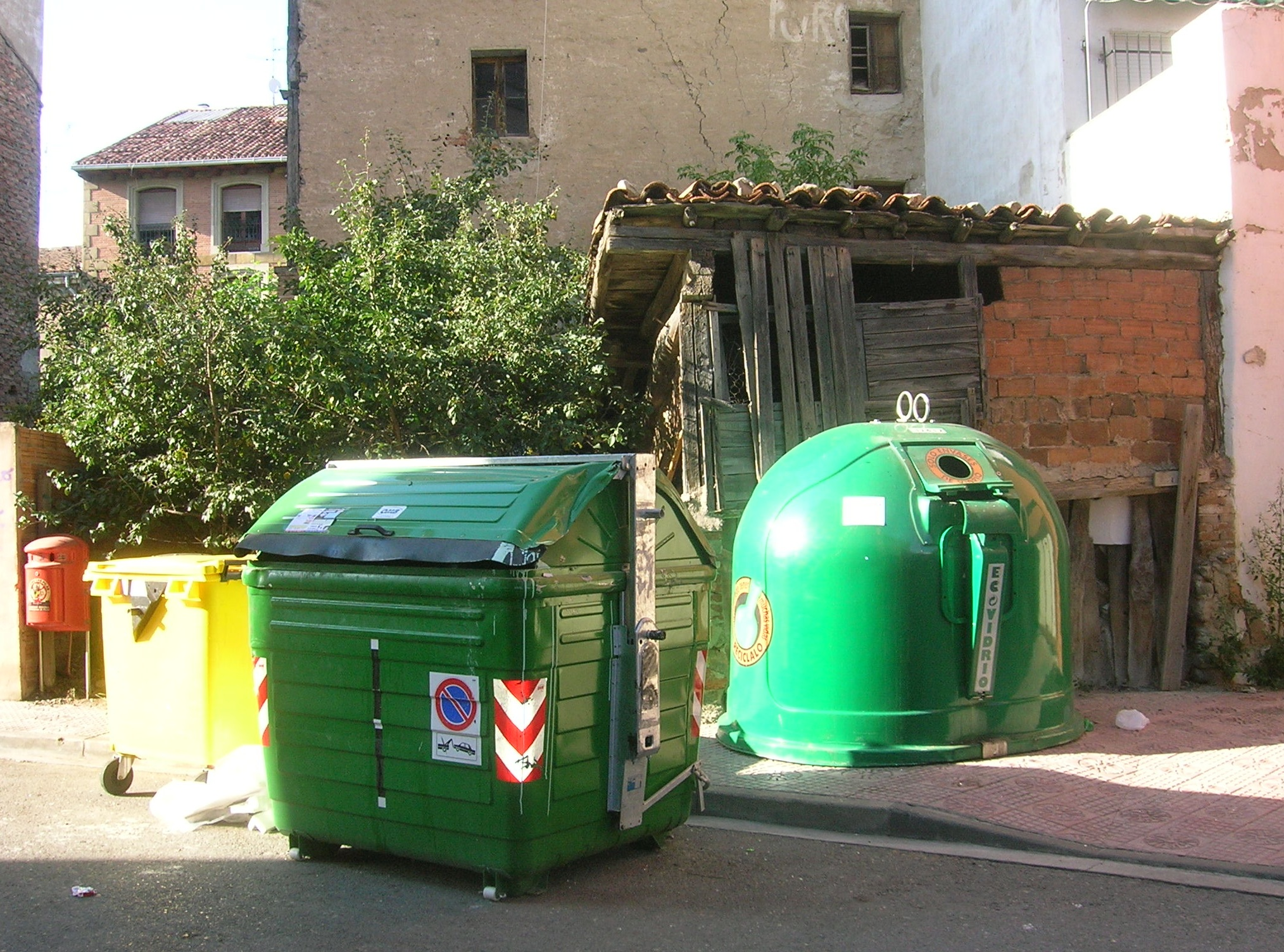 Waste collection containers in Santo Domingo de la Calzada, La Rioja, Spain: Batteries (red small container) Packages (yellow, on wheels) Organic and other wastes (green on wheels) Glass (Green, igloo shaped)